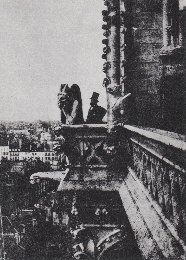 Henri Le Secq near the 'Stryge' chimera, calotype, the whole image